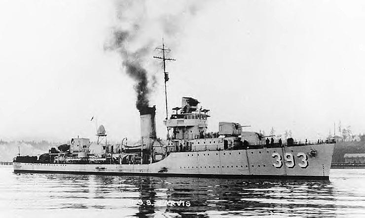 Removed caption read: Photo # NH 67842 USS Jarvis off the Puget Sound Navy Yard, circa December 1937. U.S. Naval Historical Center Photograph.